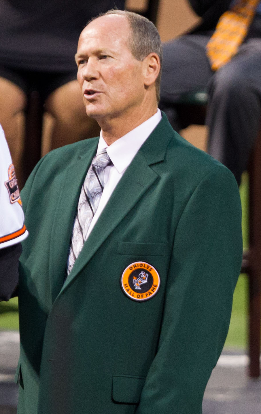 Former Baltimore Orioles player Rich Dauer being inducted into the Orioles Hall of Fame – Toronto Blue Jays at Baltimore Orioles August 25, 2012